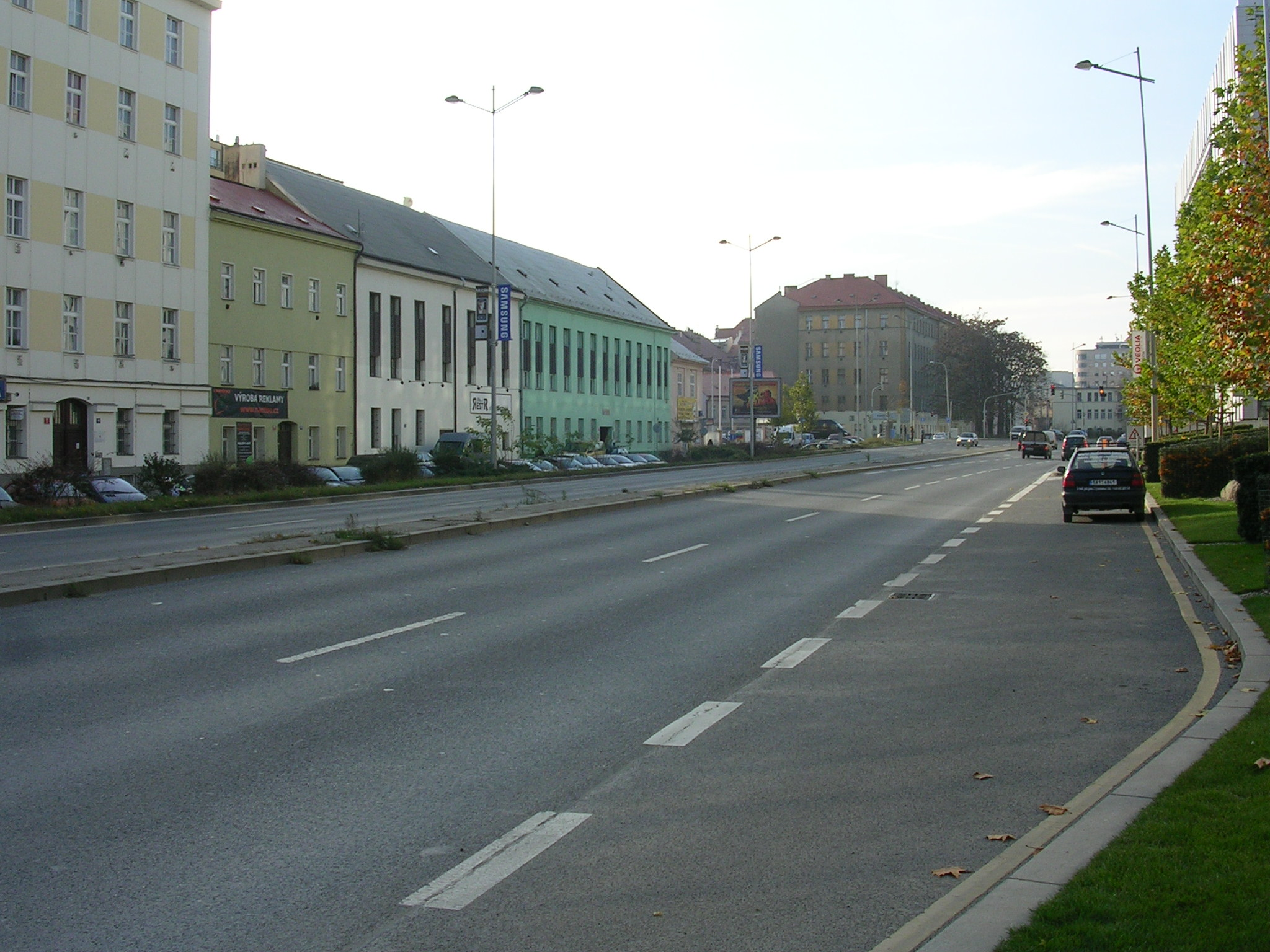 Karlín, Prague.